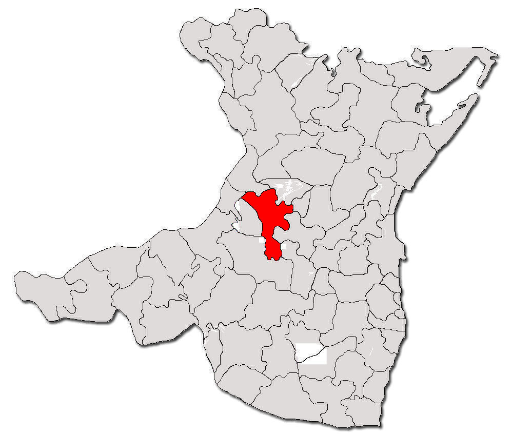 Countour map of Mircea Voda commune